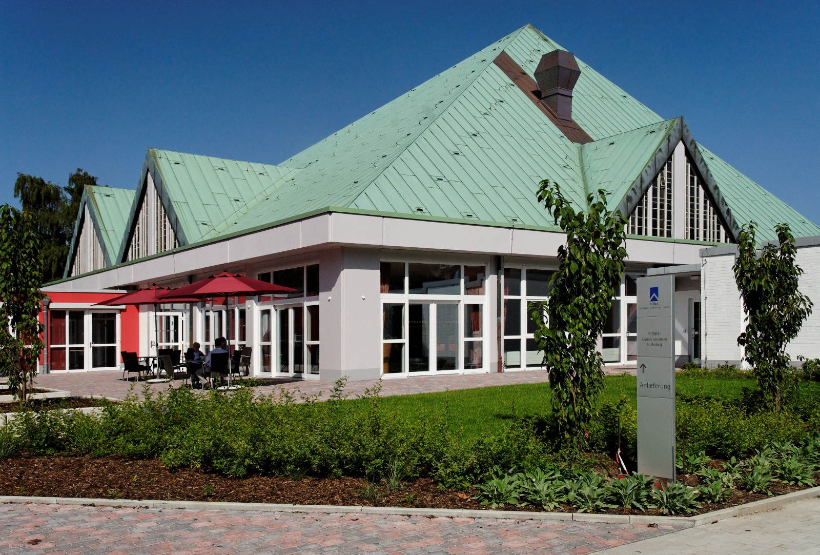 Former Saint Hedwig Church in Düsseldorf-Eller, Germany